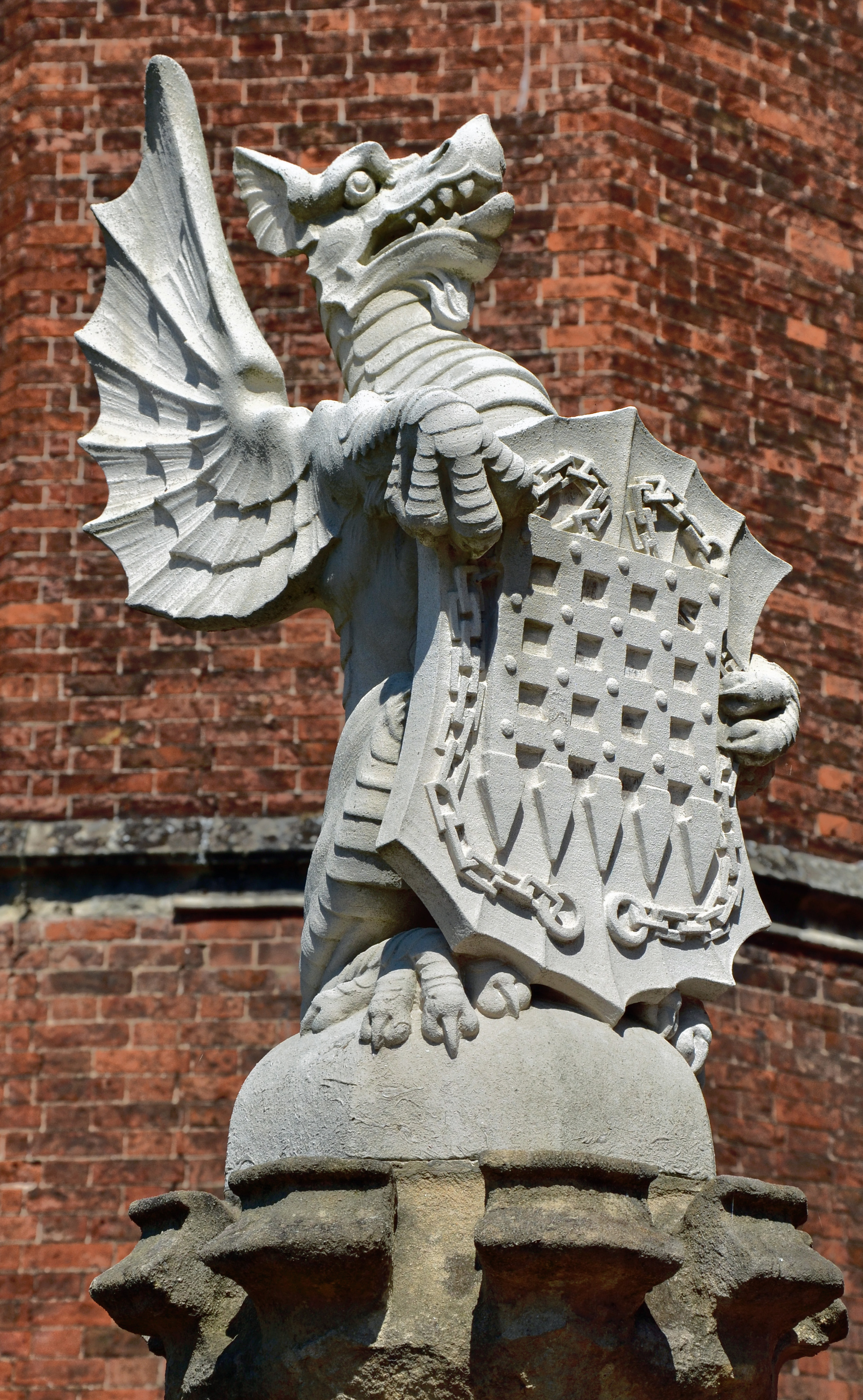 Original Desciption: Outside the Great Gate at Hampton Court Palace. These sculptures represent the the heraldic devices of various monarchs of England and date from only 1953 (the current Queen's coronation year) although the Palace itself is 16th century. The above description was the uploader's original description on Flickr. This is incorrect, this is one of the King's Beasts statues located outside Hampton court and not of the Queen's Beasts statues made for the coronation of Elizabeth II in 1953 which can be found in Canada. Stone replicas of the Queen's Beasts can be found in Kew Gardens, London.